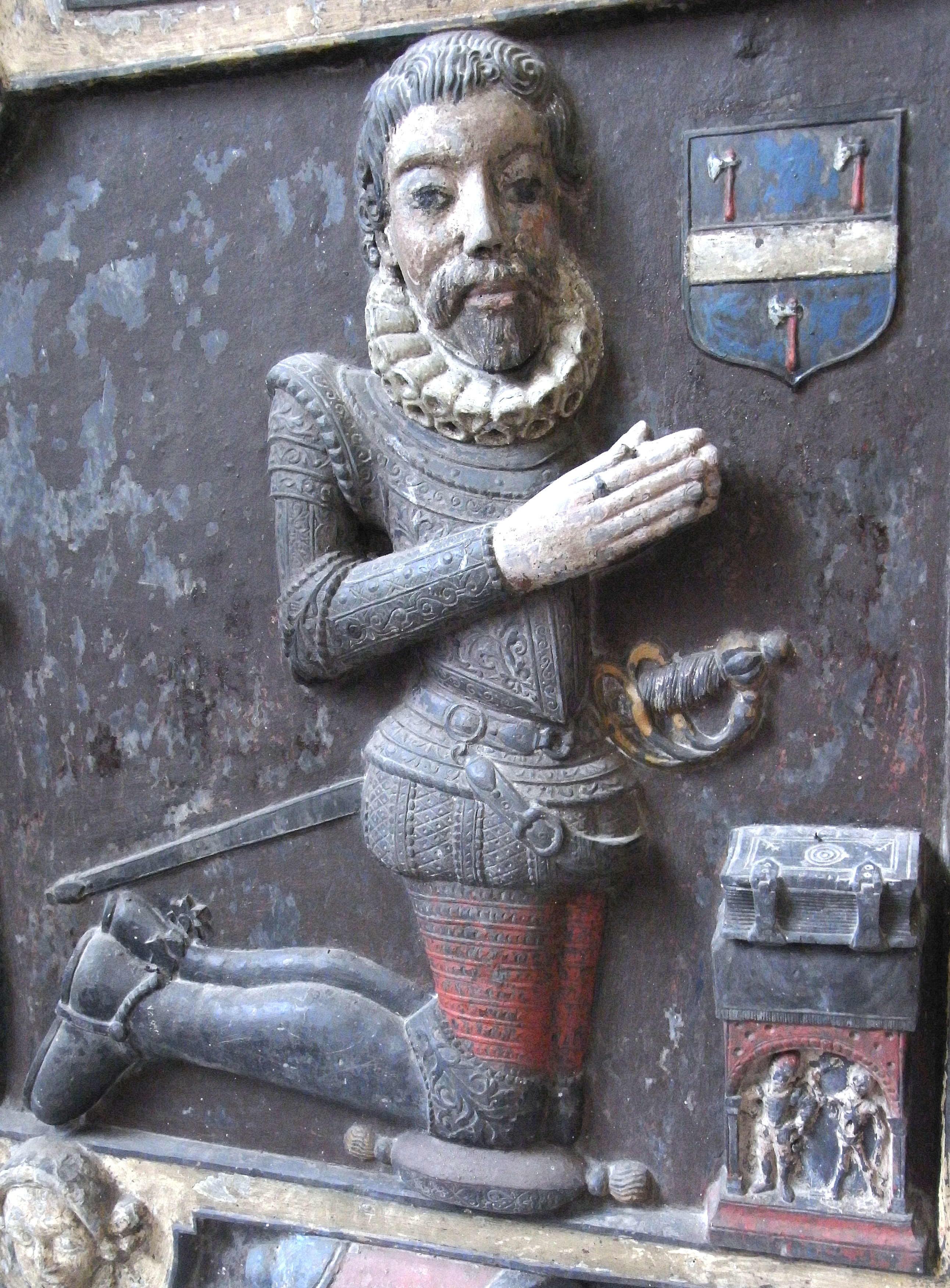 Effigy of John Wrey (d.1597) of Trebeigh, St Ive, Cornwall. The monument was moved from St Ive Church to its present position against the east wall of the nort transept of St Peter's Church, Tawstock, Devon, in 1924 by Sir Philip Bourchier Sherard Wrey, 12th Baronet (1858-1936), of Tawstock Court.(Pevsner, Nikolaus & Cherry, Bridget, The Buildings of England: Devon, London, 2004, p.790)